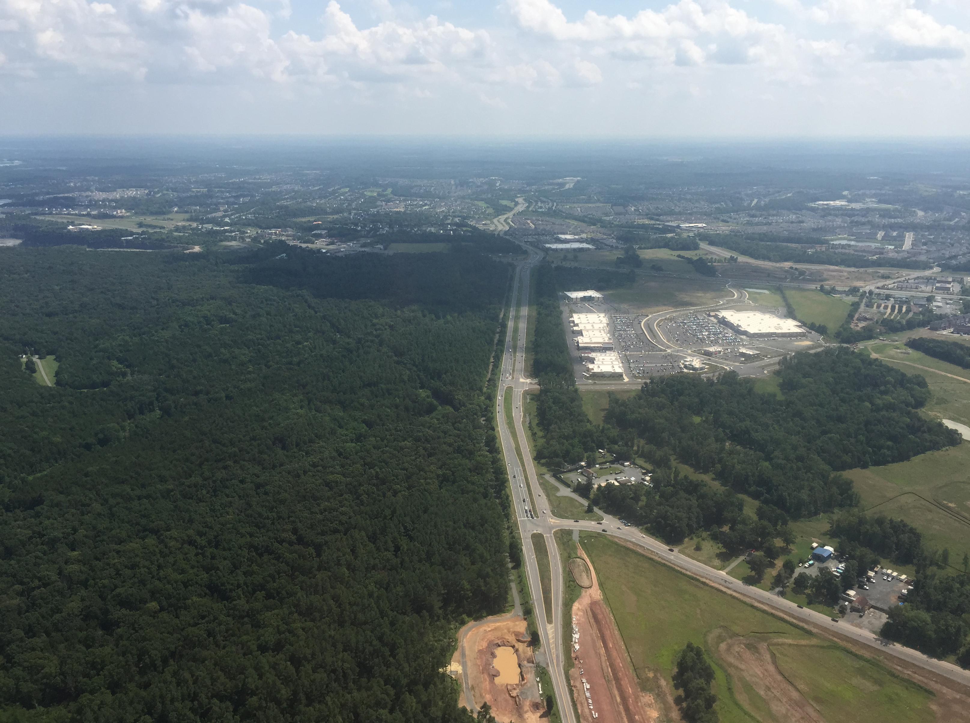 View southwest along Virginia State Secondary Route 606 (Loudoun County Parkway) through Arcola and South Riding in Loudoun County, Virginia from an plane departing Washington Dulles International Airport